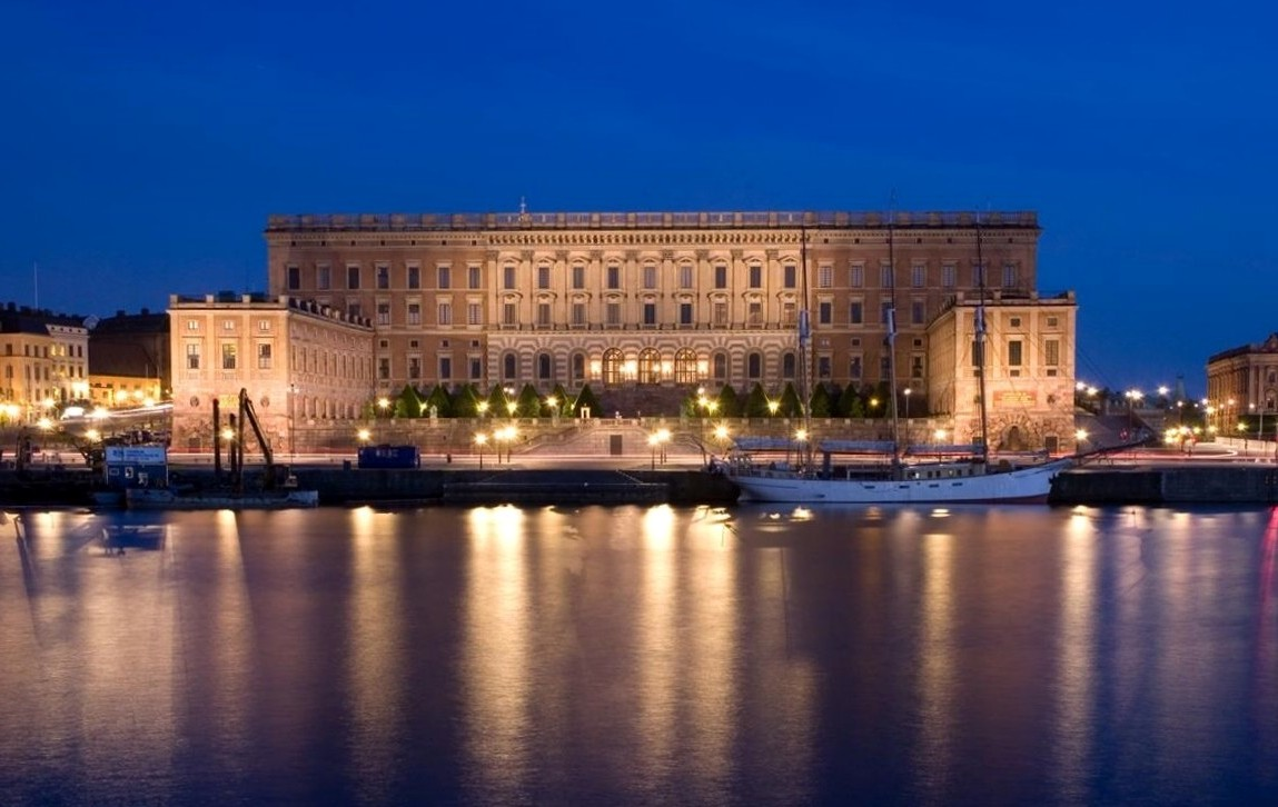 The Royal Palace, Stockholm, Sweden.